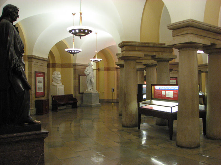 Photograph of the United States Capitol crypt, taken by Rebel At, on June 23rd, 2007.